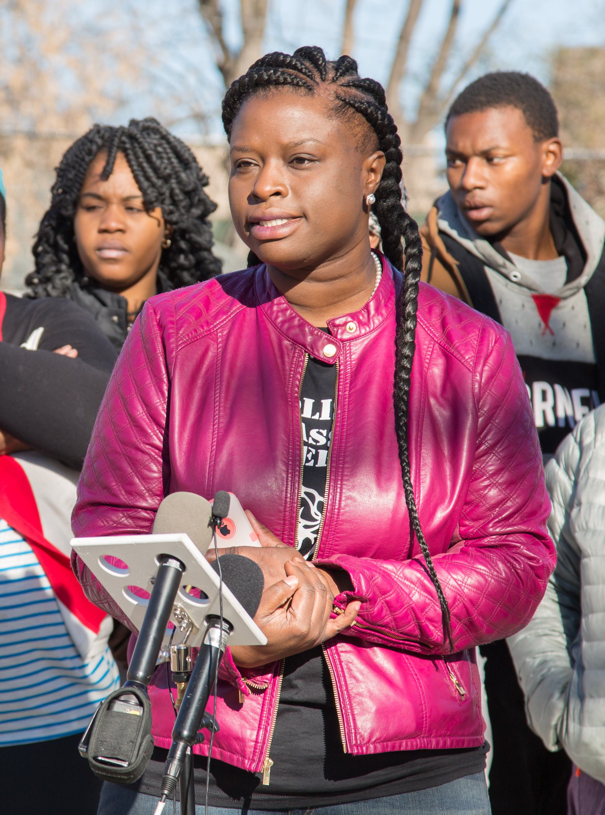 Minneapolis NAACP President Nekima Levy-Pounds speaks to the media at Plymouth and James Avenue North, the site of the Minneapolis Police officer-involved shooting of Jamar Clark. Photo: Tony Webster